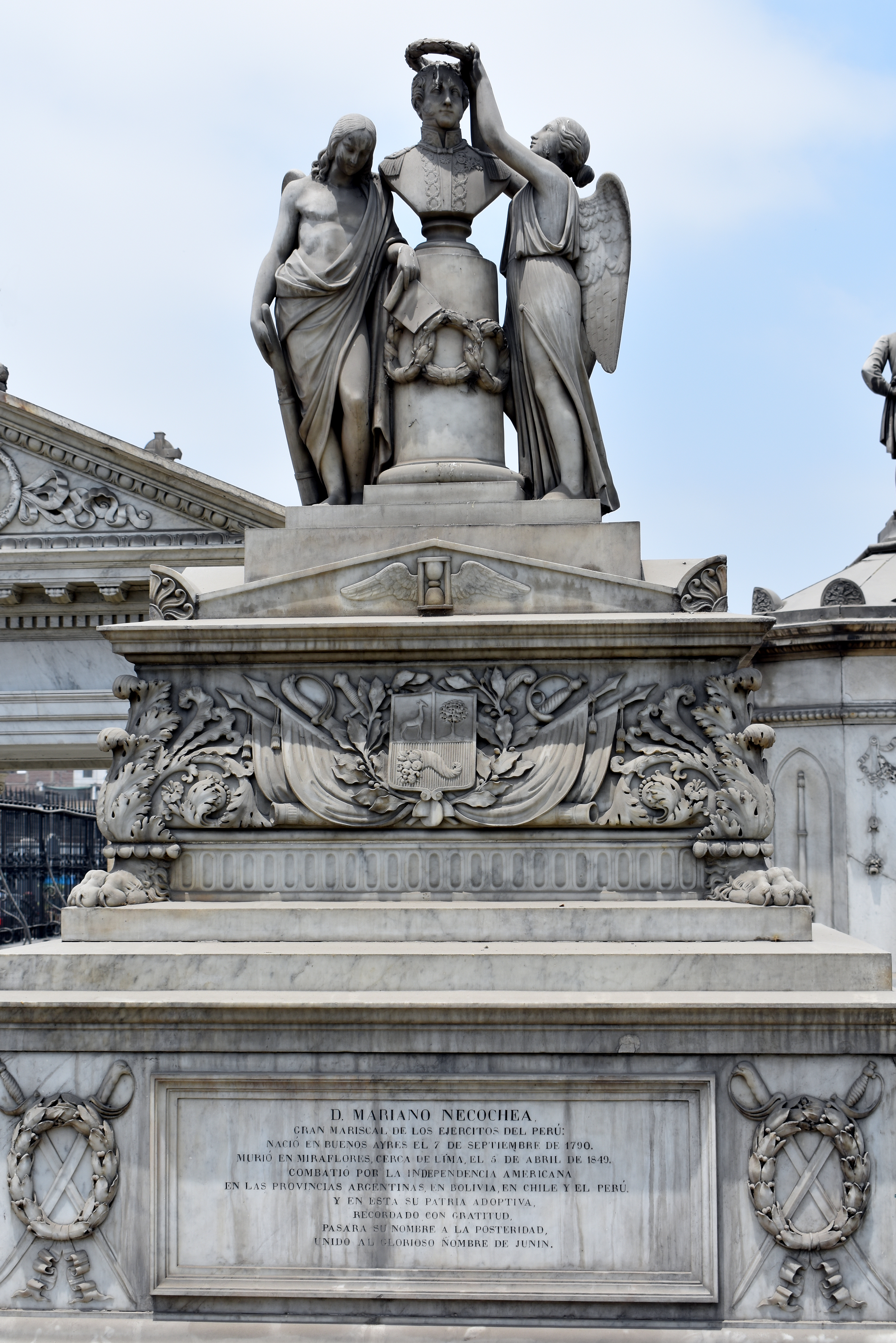 Funerary monument for Mariano Necochea, Marshal of the Army of Perú